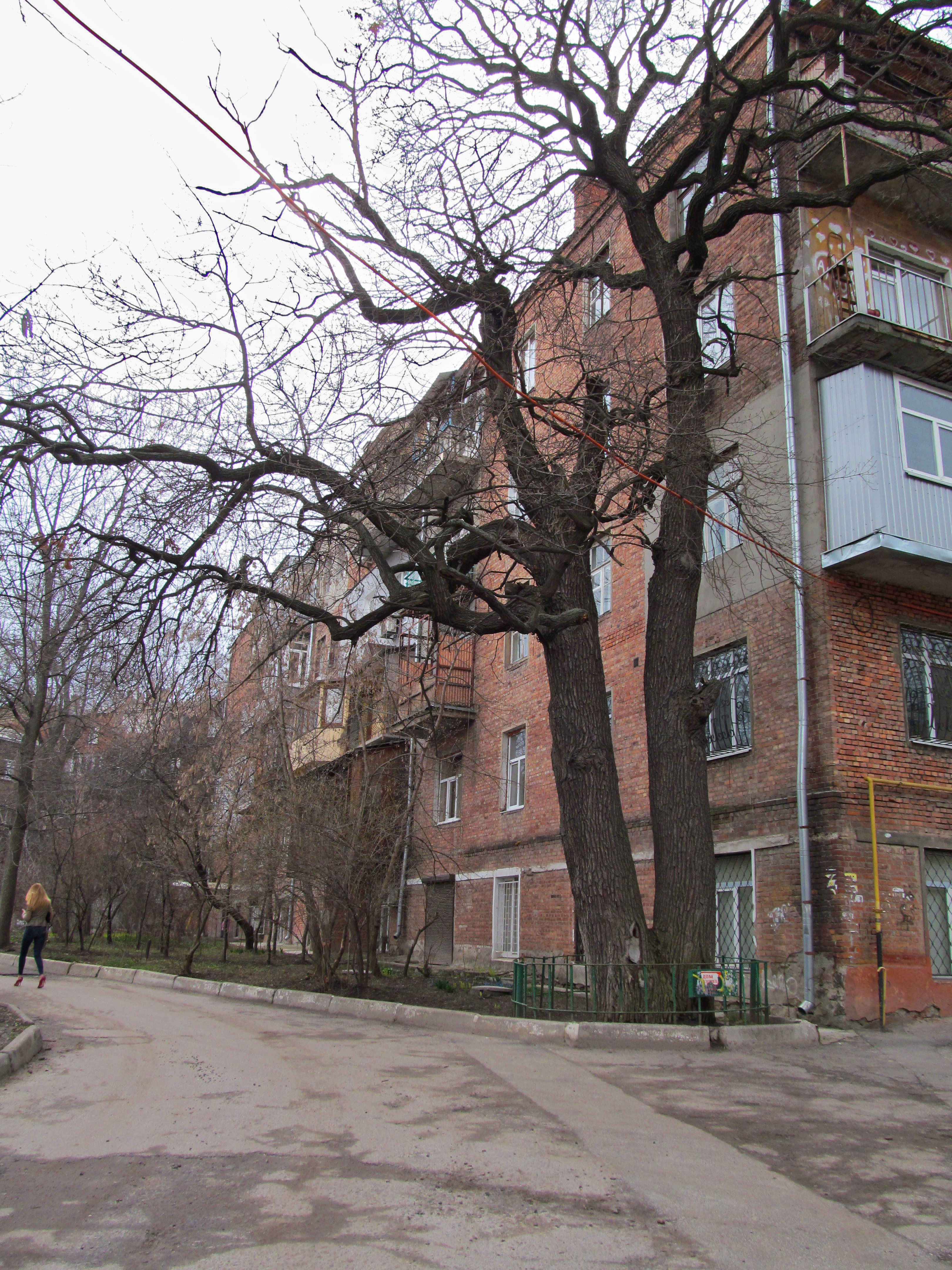 Marshala Bazhanova street, 5, Kharkiv, Ukraine. Oaks.